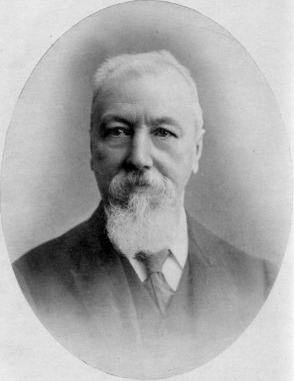 Joseph Henry Blackburne Brightness and contrast adjusted from the public domain version in Commons. Some white space cropped.